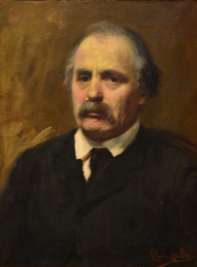 Portrait of Johann Rudolf Müller, father of Clara Müller